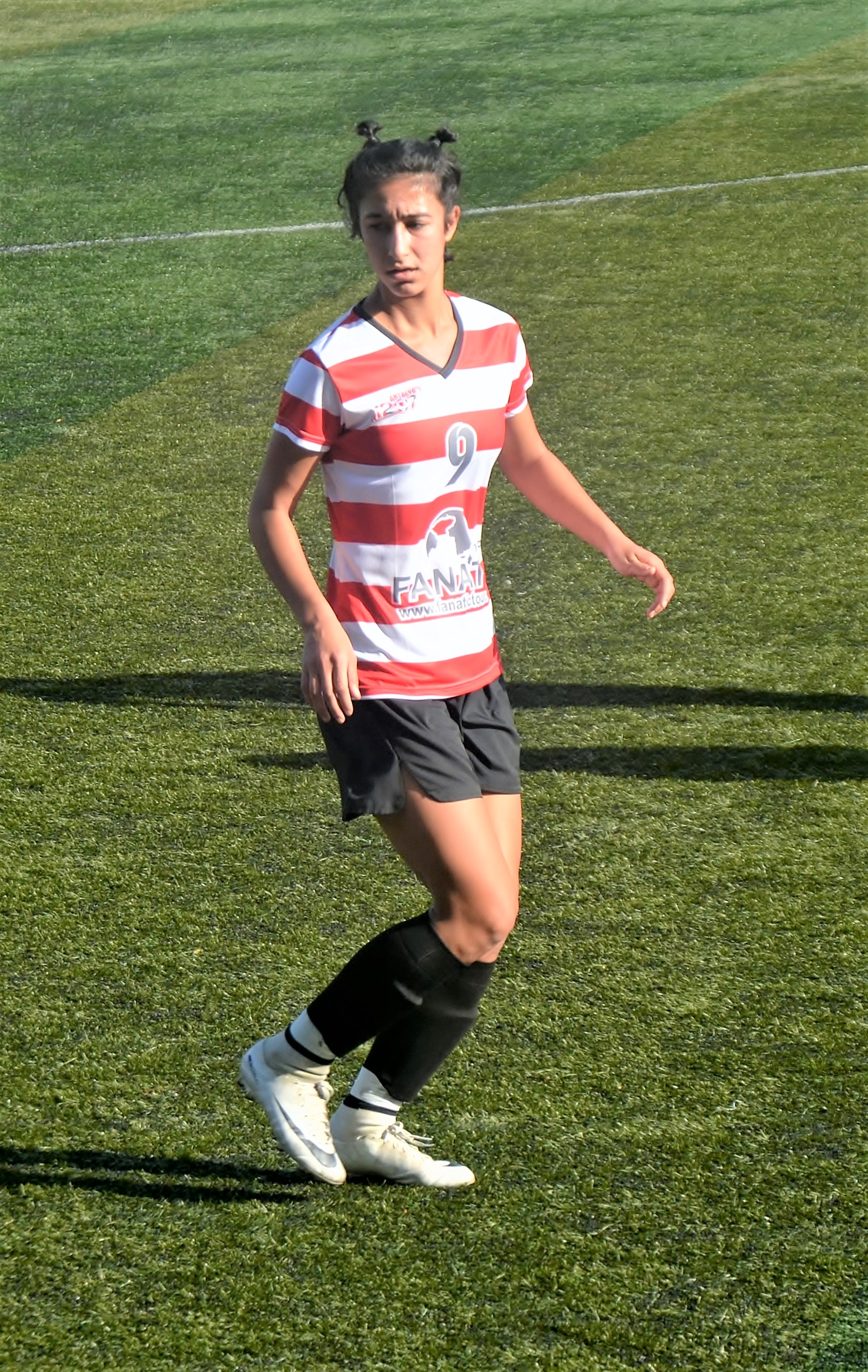 Esra Manya playing for 1207 Antalya Spor in the 2017-18 Turkish Women's First Football League.